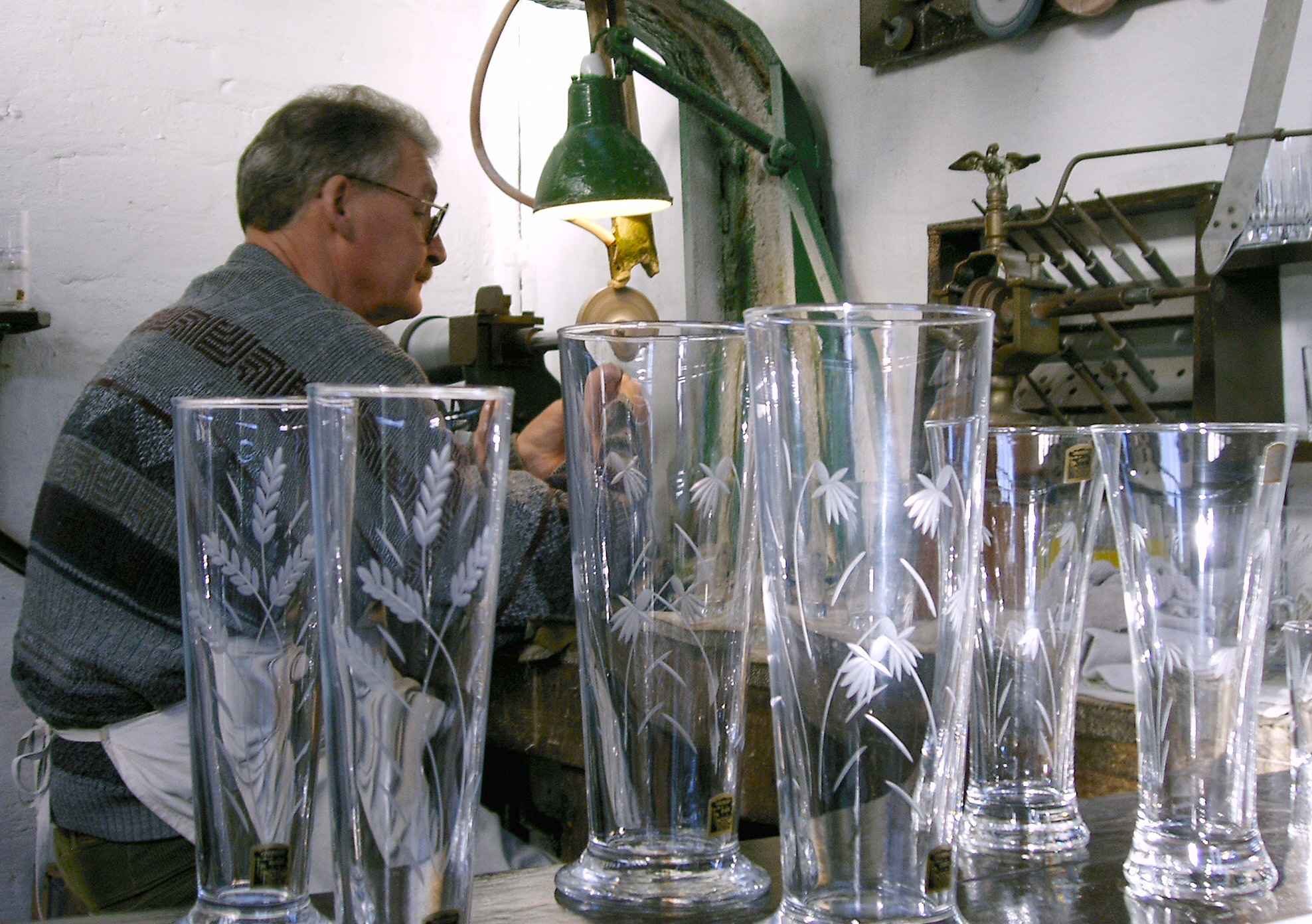 Glass engraver at Black Country Living Museum. This is one of the skilled trades demonstrated at the Museum.